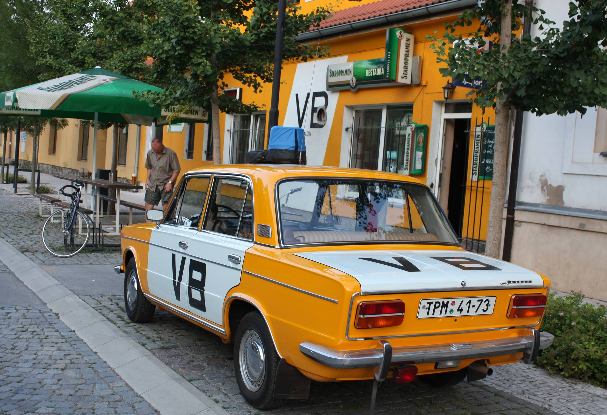 A replica of the Czechoslovak police car - VB - Veřejná bezpečnost - Public Security (from 1980s) in Dobřichovice.